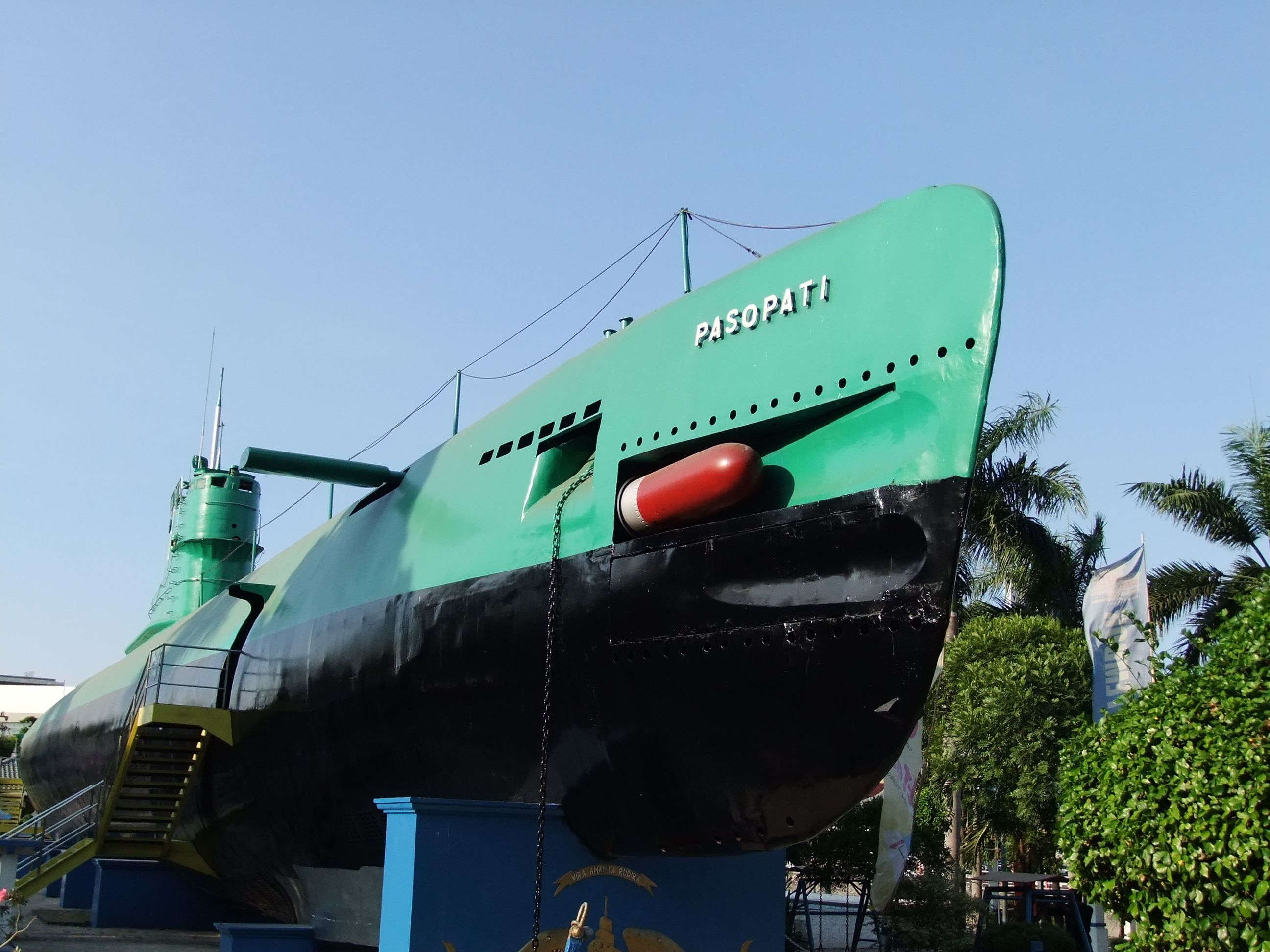 Submarine Monument (KRI Pasopati), Surabaya, Indonesia